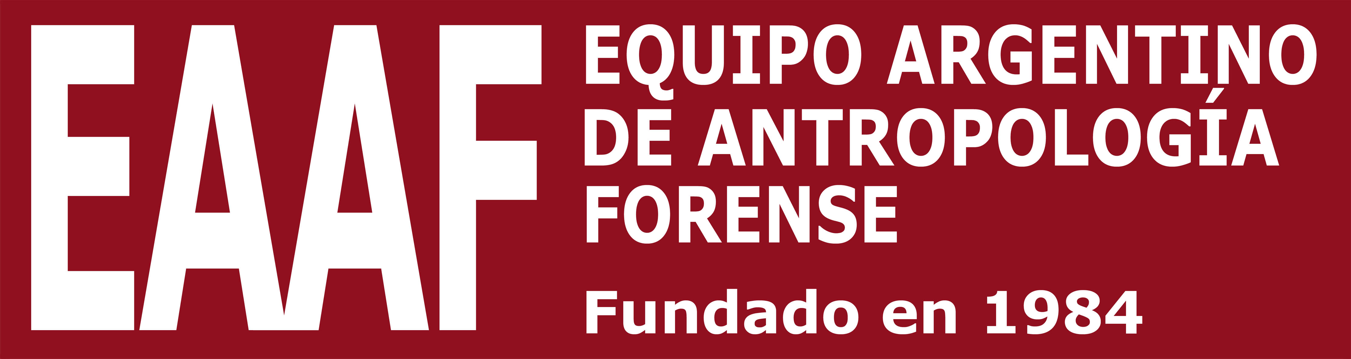 Logo of the EAAF (Argentine Forensic Anthropology Team) (Equipo Argentino de Antropología Forense)